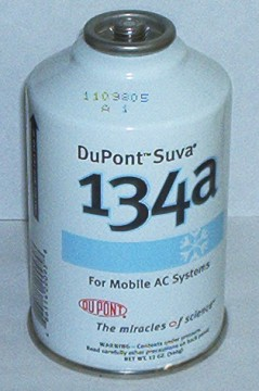 DuPont R-134a (1,1,1,2-Tetrafluoroethane) refrigerant in a 12 ounce can. Picture by Phroziac